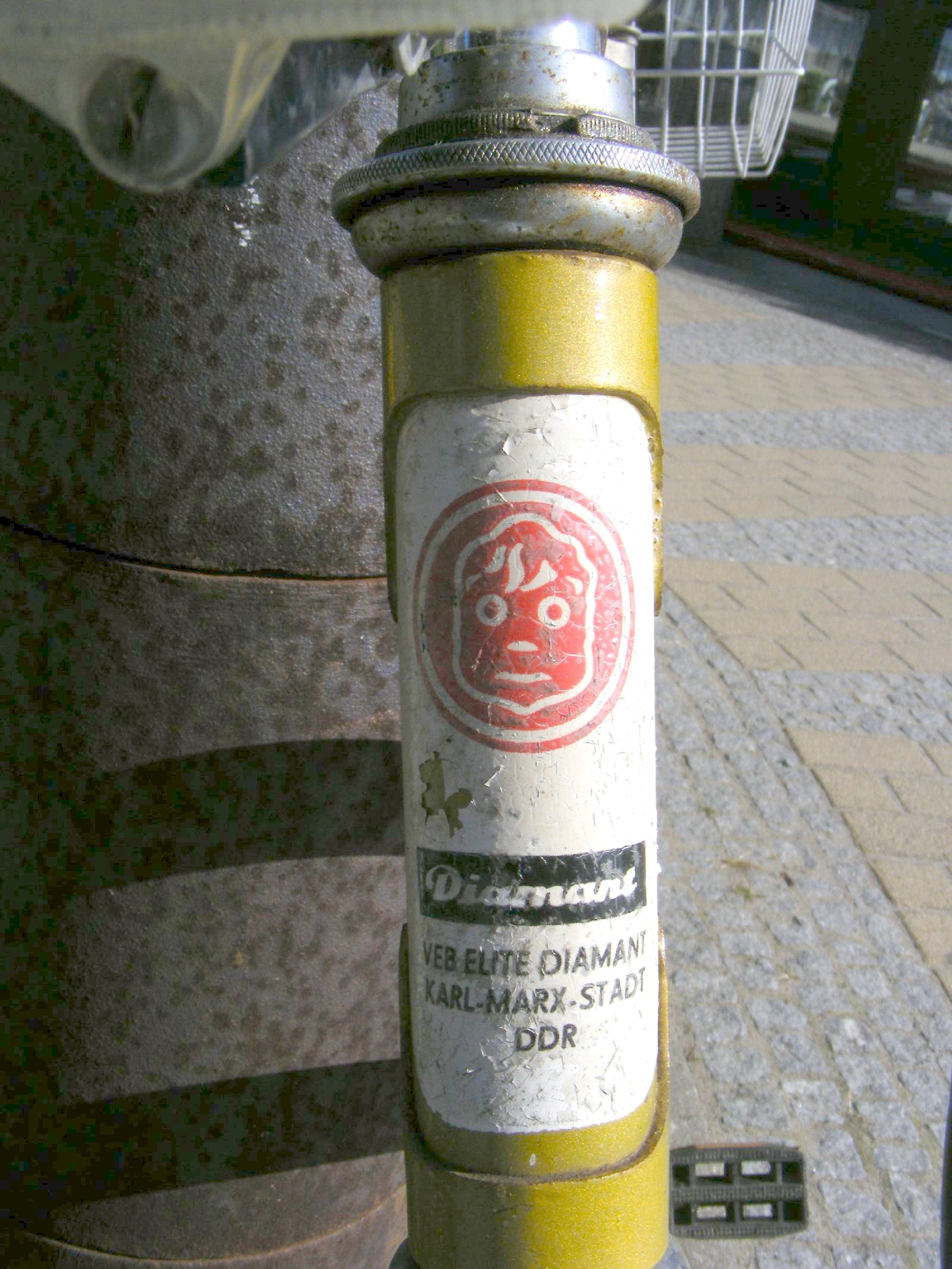 Diamant from Karl-Marx-Stadt, which reverted to its pre-1953 name of Chemnitz in 1990. "real bicycles" are extremely rare on the Baltic among the thousands of new hire bikes and temporarily imported ones of holidaymakers. The Diamant cycle factory was in a combine- VEB Textima - which incorporated knitting machinery - Flachstrickmaschinen.